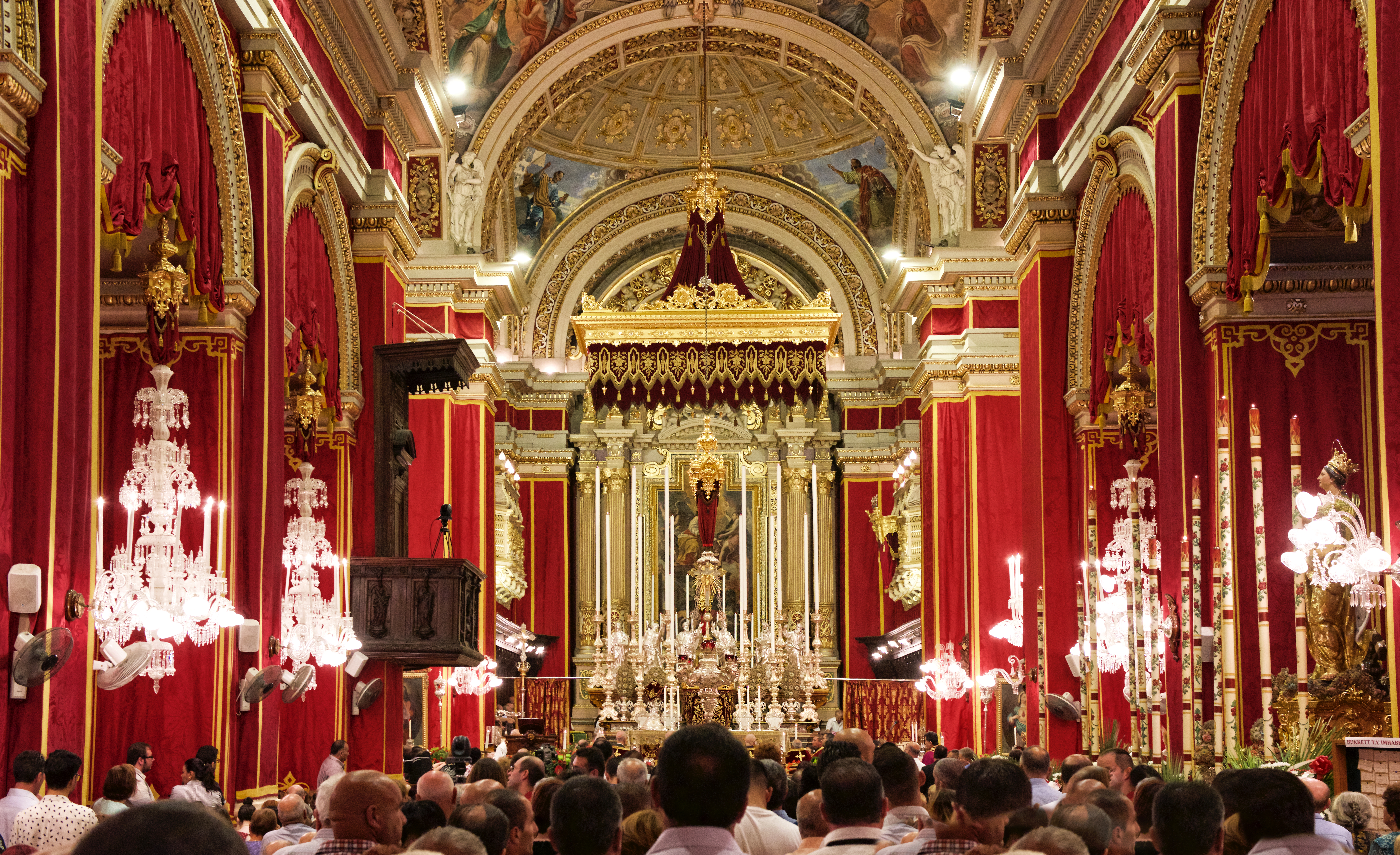 The Church of St Catherine is a Roman Catholic parish church that serves the village of Żurrieq. Inside view